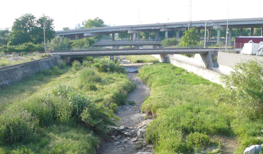 Riera Seca in la Llagosta (Vallès Oriental, Catalonia).